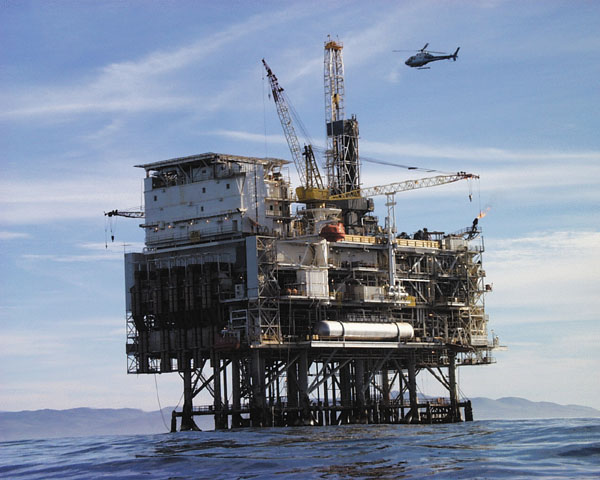 Oil platform The Arguello Inc. Harvest Oil Platform is located about 10 km off the coast of central California near Point Conception. [1] [dead link]